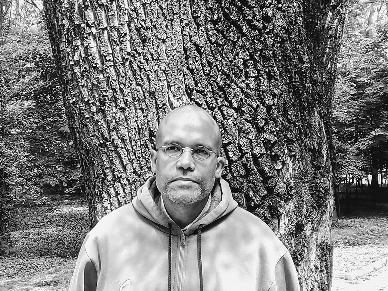 Portrait of Vladimir Sabourin